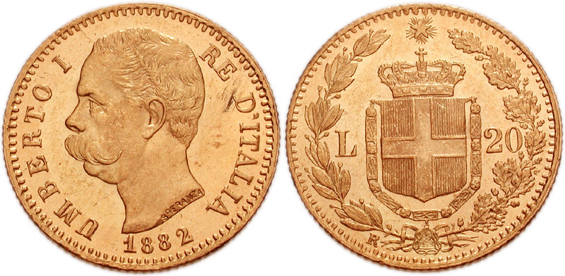 Italy, Kingdom. Umberto I. 1878-1900. AV 20 Lire (21mm, 6.46 g, 6h). Rome mint. Dated 1882. Bare head left; 1882 (date) below Crowned arms within laurel and oak wreath; R (mint) in exergue.